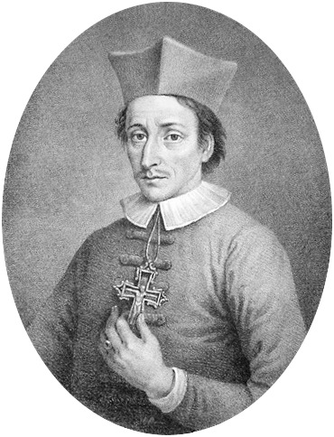 Niels Steensen (da) - Nicholas Steno (1638 - 1686) var en pioner både indenfor anatomi og geologi. - Danish Scientist A PNG version of this image with a transparent background is available.